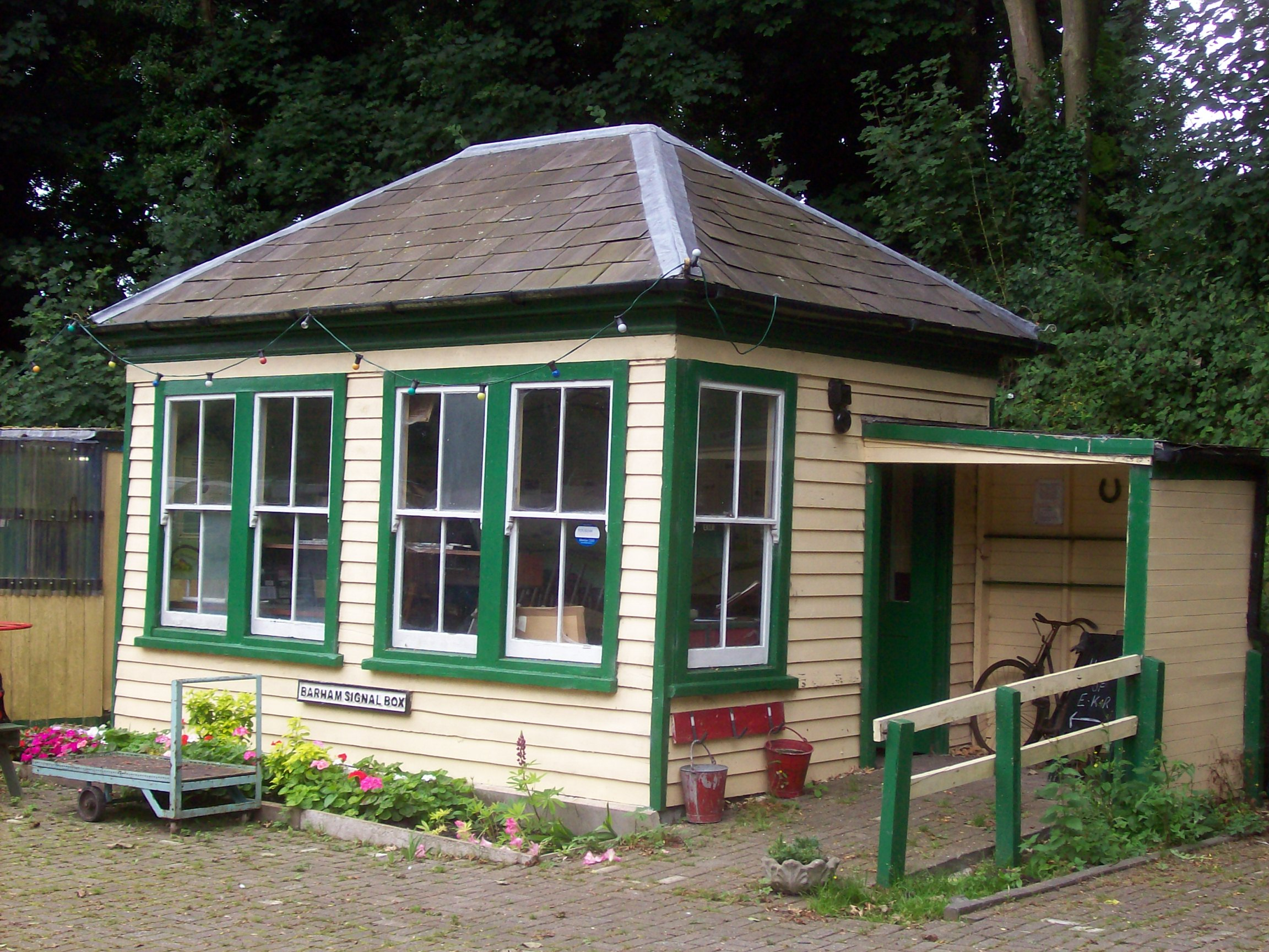 The signal box from Barham, Elham Valley Railway, now preserved at Shepherdswell, East Kent Railway.